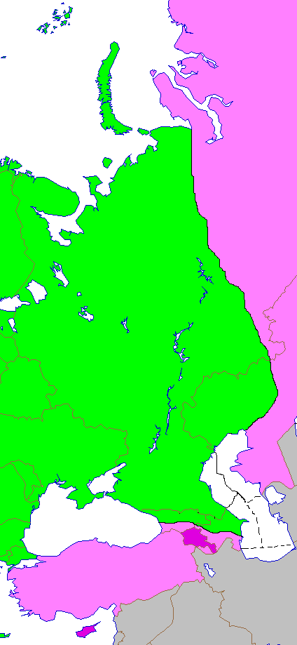 Geographical border between Europe and Asia based on Image:Europe_political_map.png